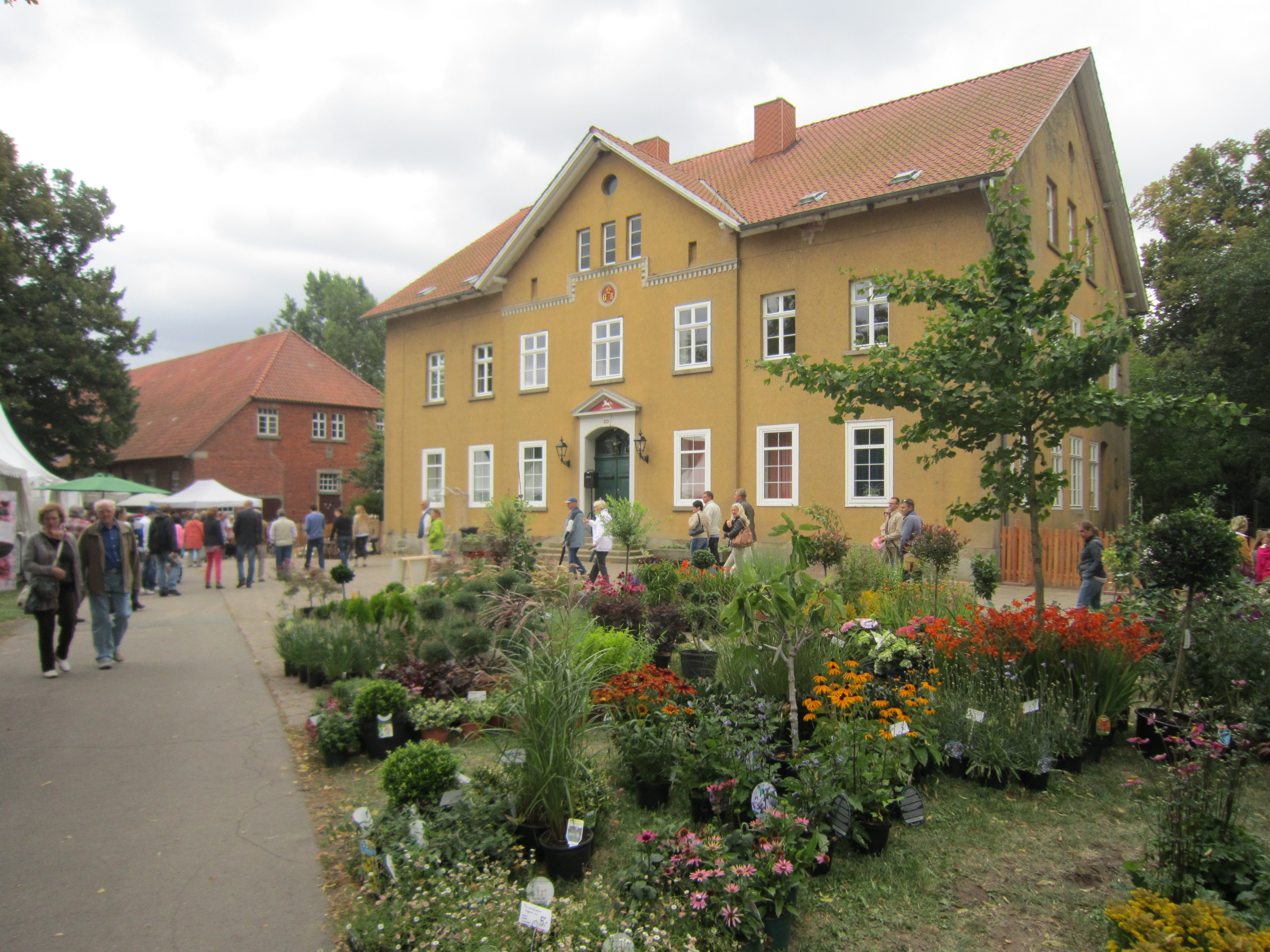 Manour house of Domaine "Schäferhof" near Nienburg/Weser during the garden festival "Landpartie"